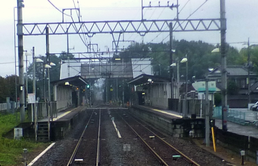 Yashū-Ōtsuka Station platforms (野州大塚駅のホーム)